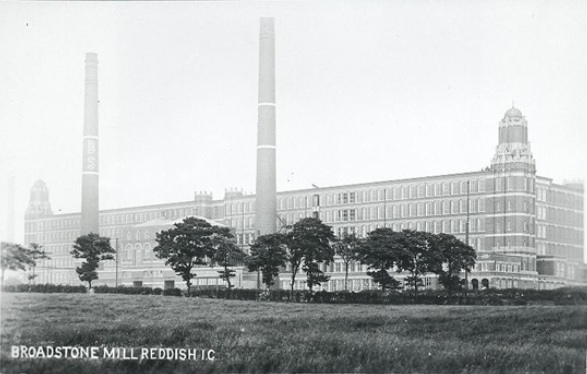 Broadstone Mill, Reddish